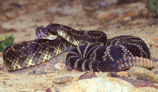 Crotalus oreganus helleri, previously known as Crotalus viridis helleri. Commonly known as the Southern Pacific rattlesnake.